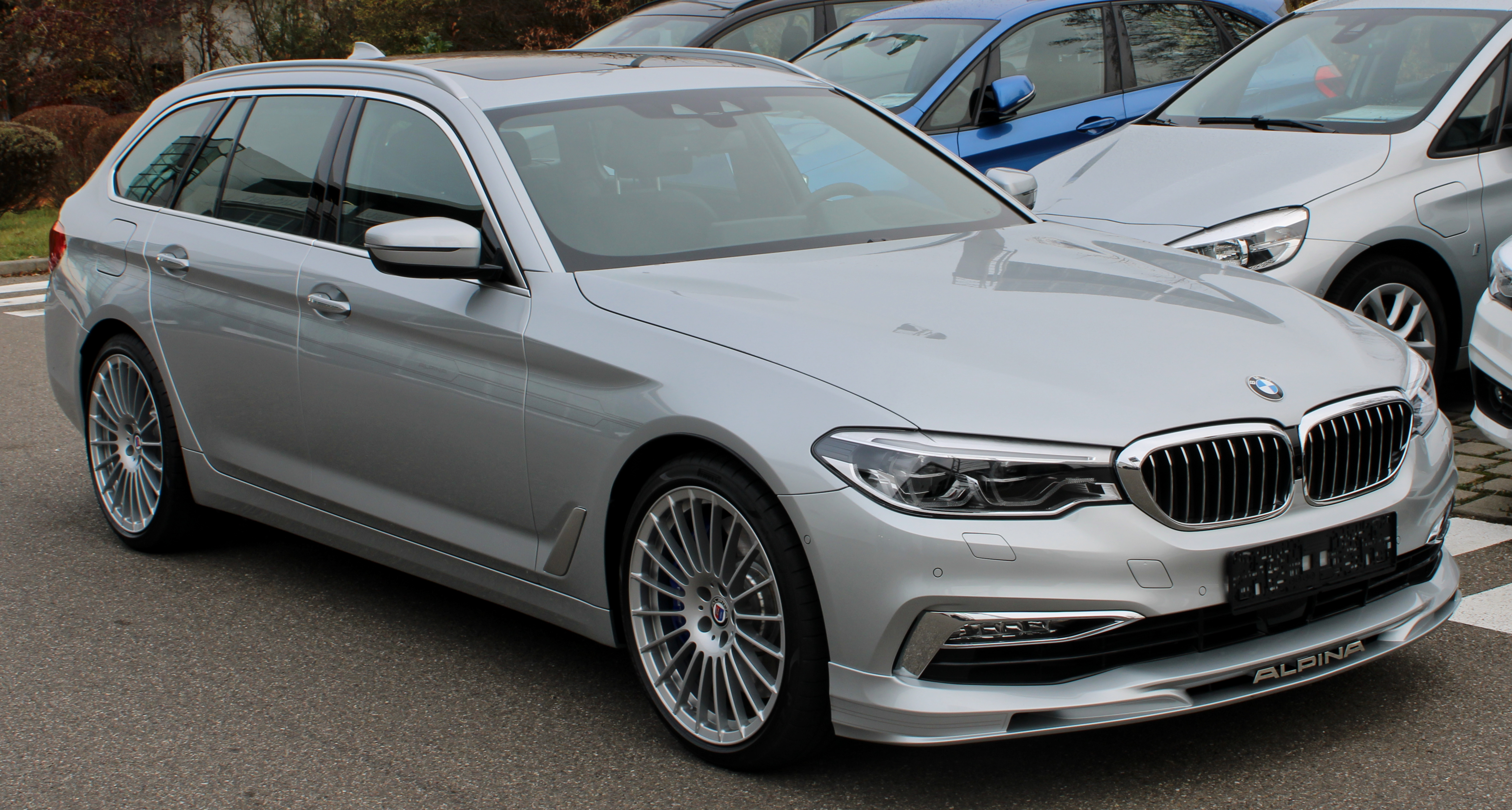 Alpina B5 Biturbo Touring in Stuttgart-Vaihingen